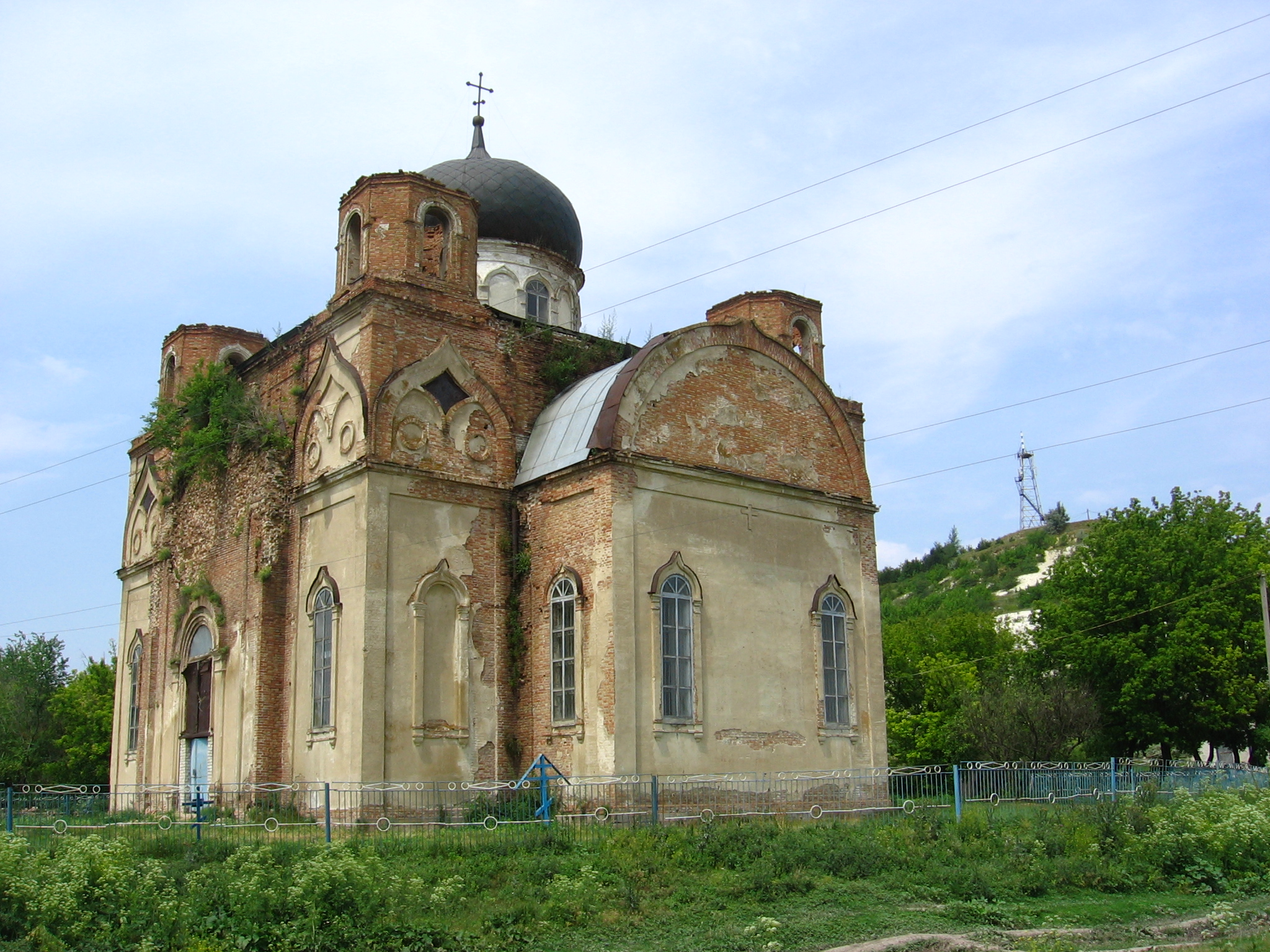 Church in Horodyshche, Bilovodsk Raion, Luhansk Oblast, Ukraine